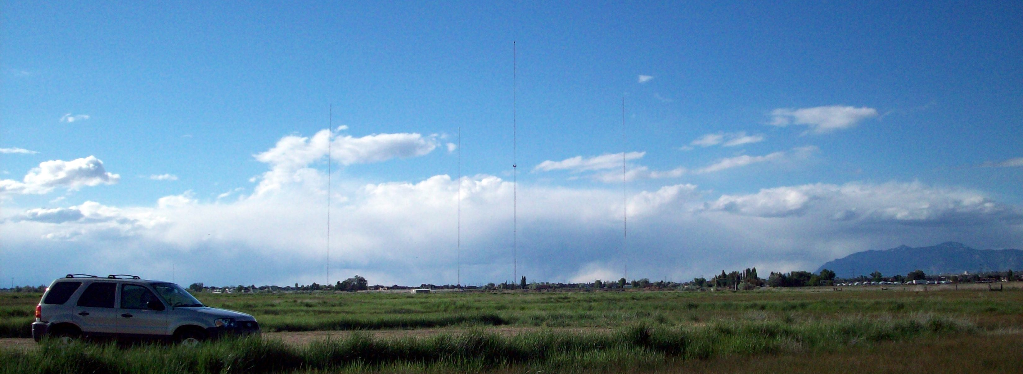 The towers for KLO 1430, Ogden Utah. These are located outside of Clearfield, Utah.